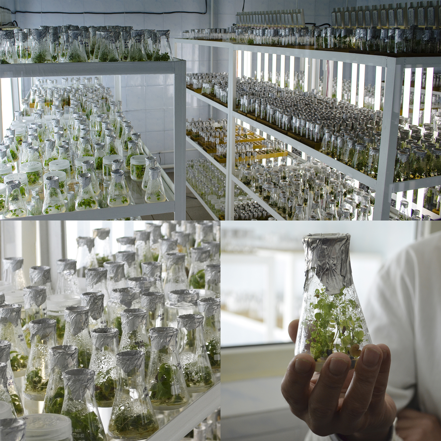 Laboratory of microclonal propagation of plants in Uman city. Stage of growing cloned plants on nutrient medium in vitro (latin: in vitro - in glass). At this stage the plant-clones form the root system, and then they could be planted in the soil.